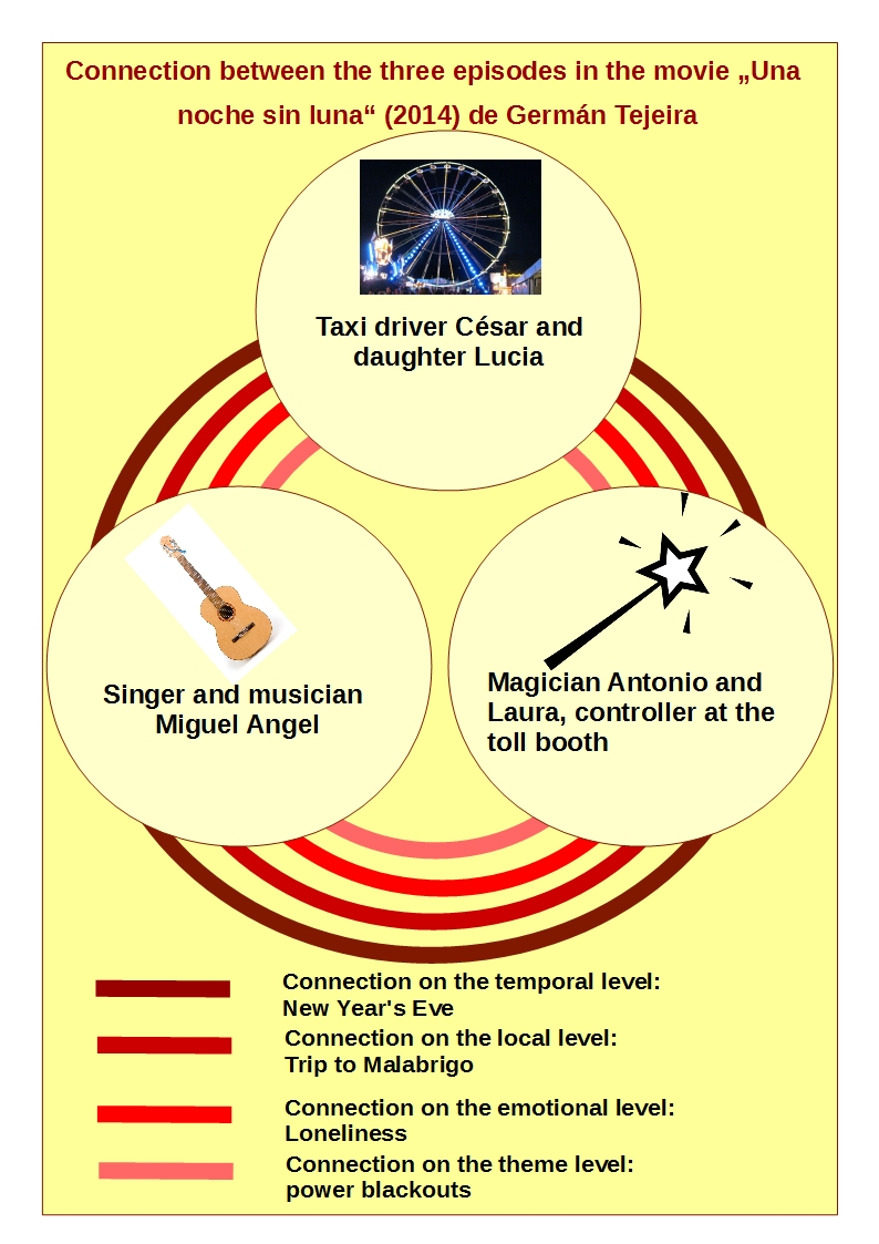 Infographics explaining the connection between the three episodes in the movie "Una noche sin luna" (written in English)